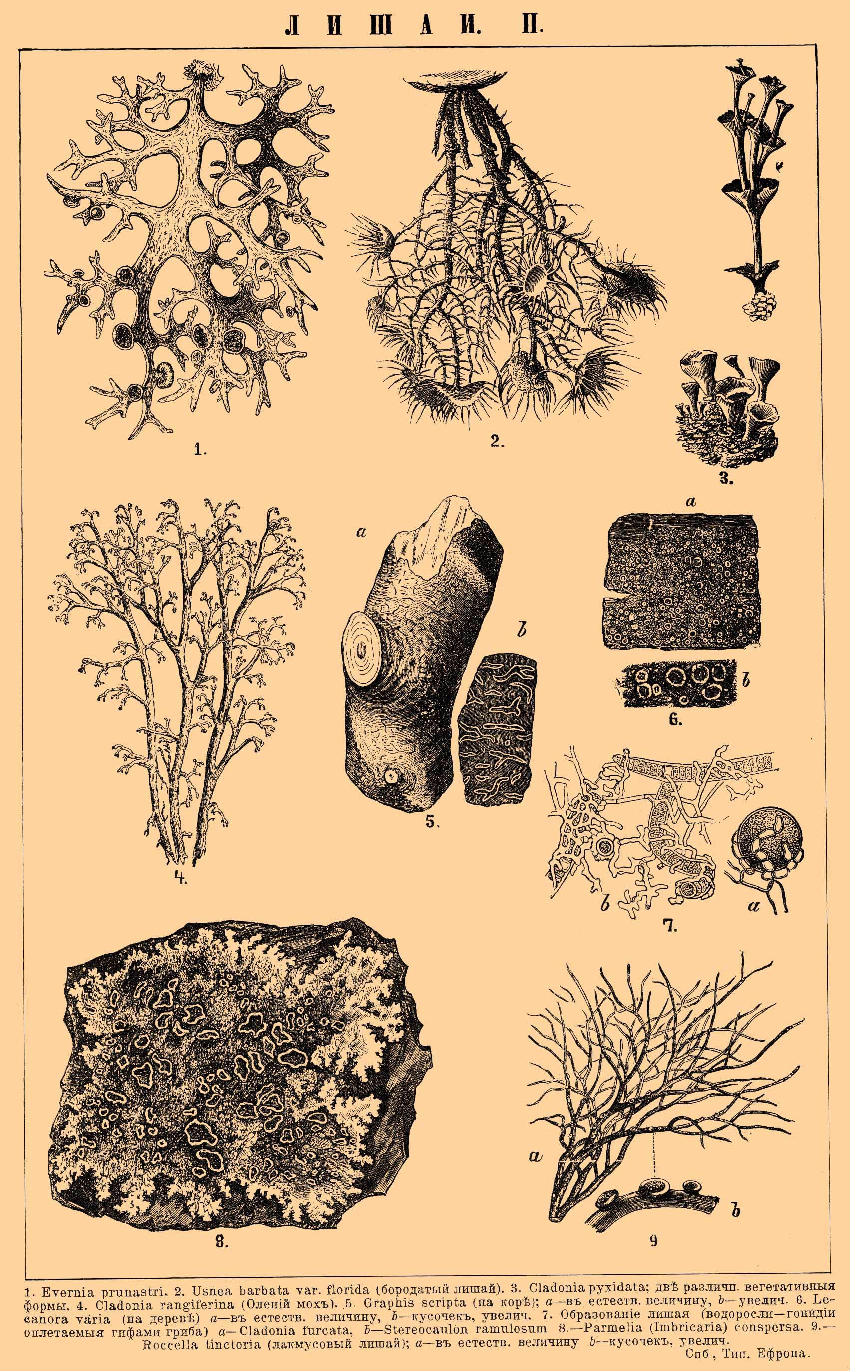 Illustration from Brockhaus and Efron Encyclopedic Dictionary (1890—1907)